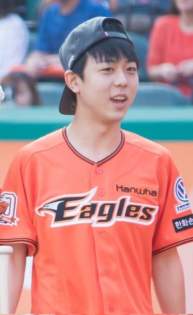 150919 한화전 오현민